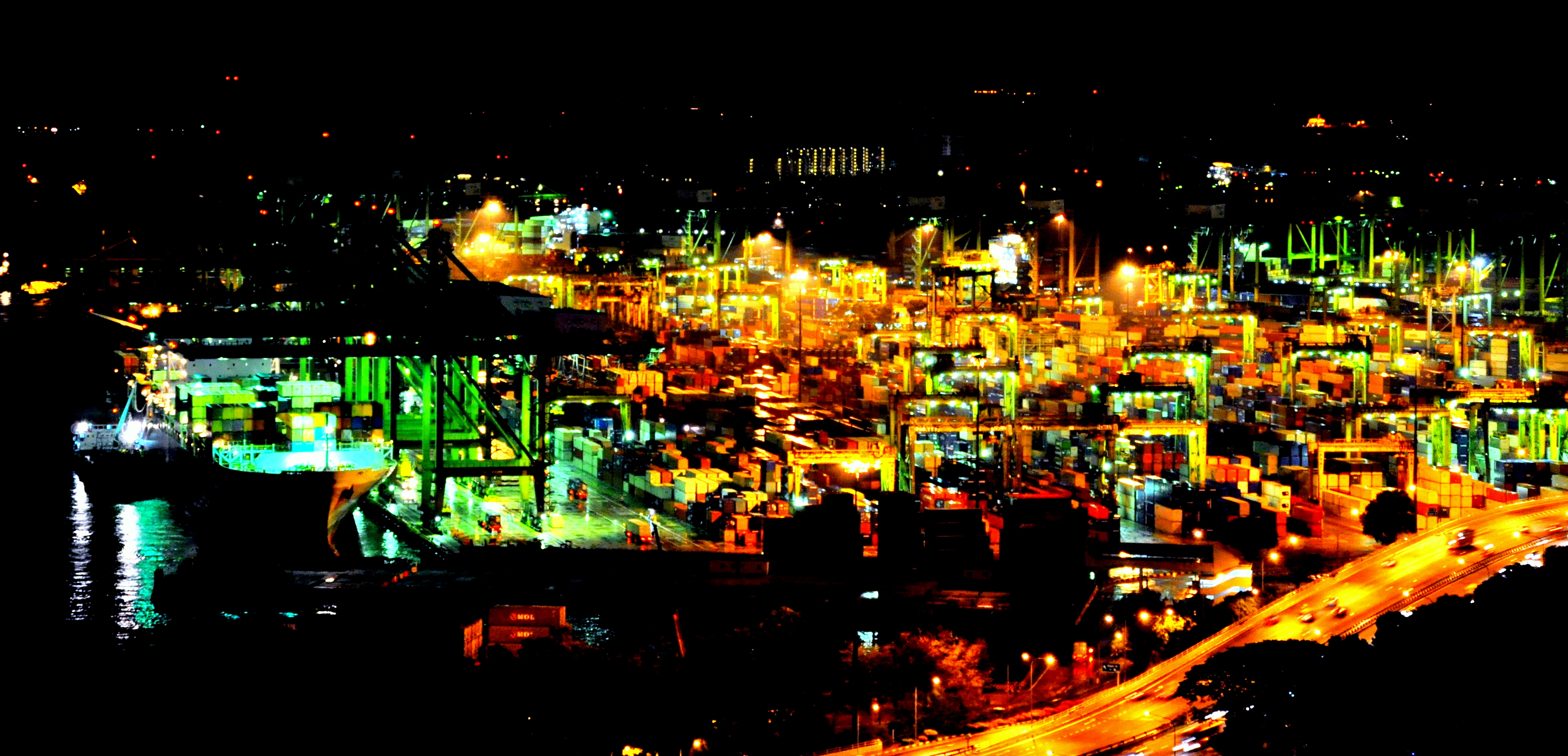 The Tanjong Pagar Container Terminal at night, viewed from The Sail@Marina Bay, Singapore.